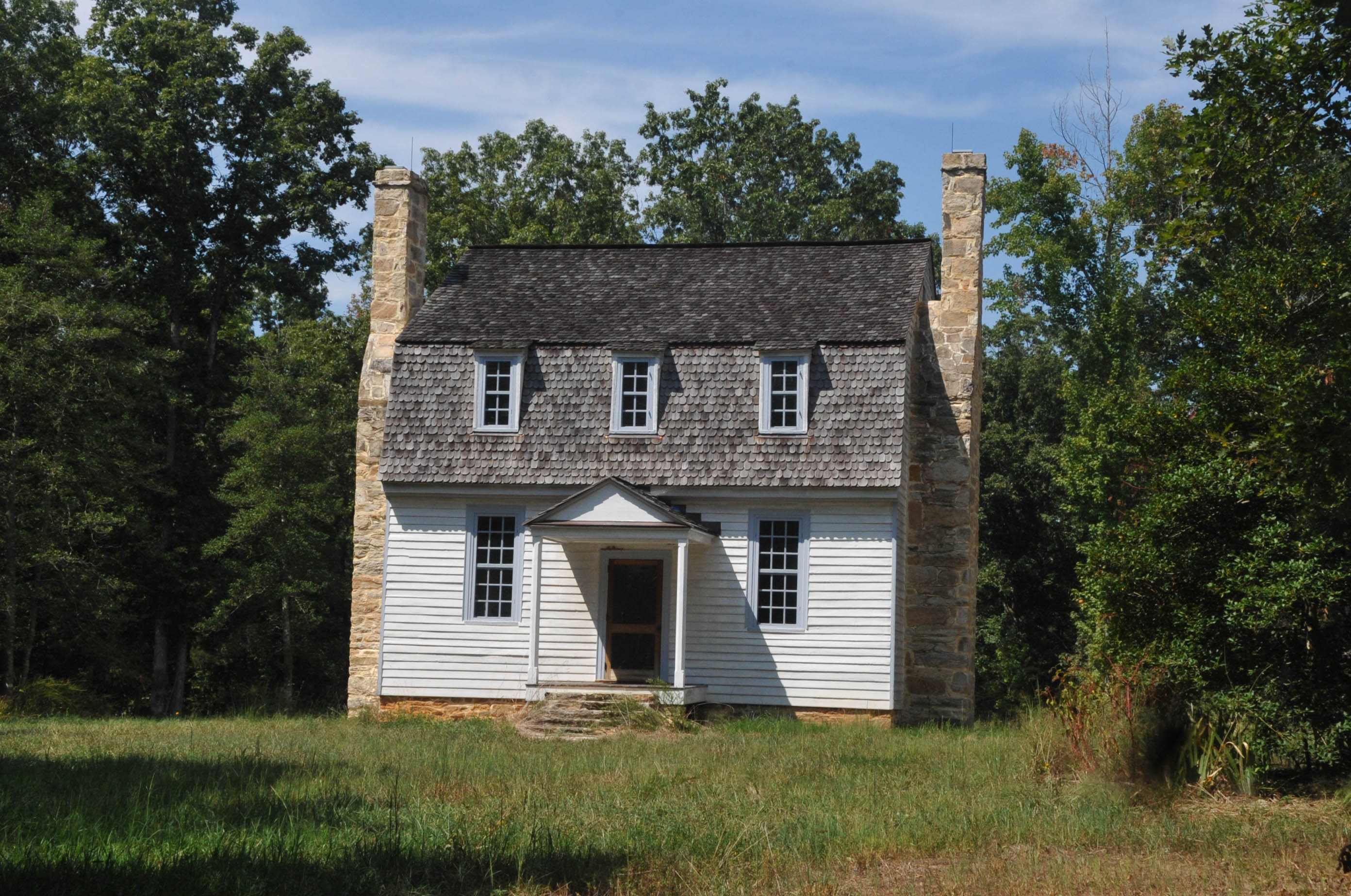 LATE 18TH CENTURY GEORGIAN ARCHITECTURE